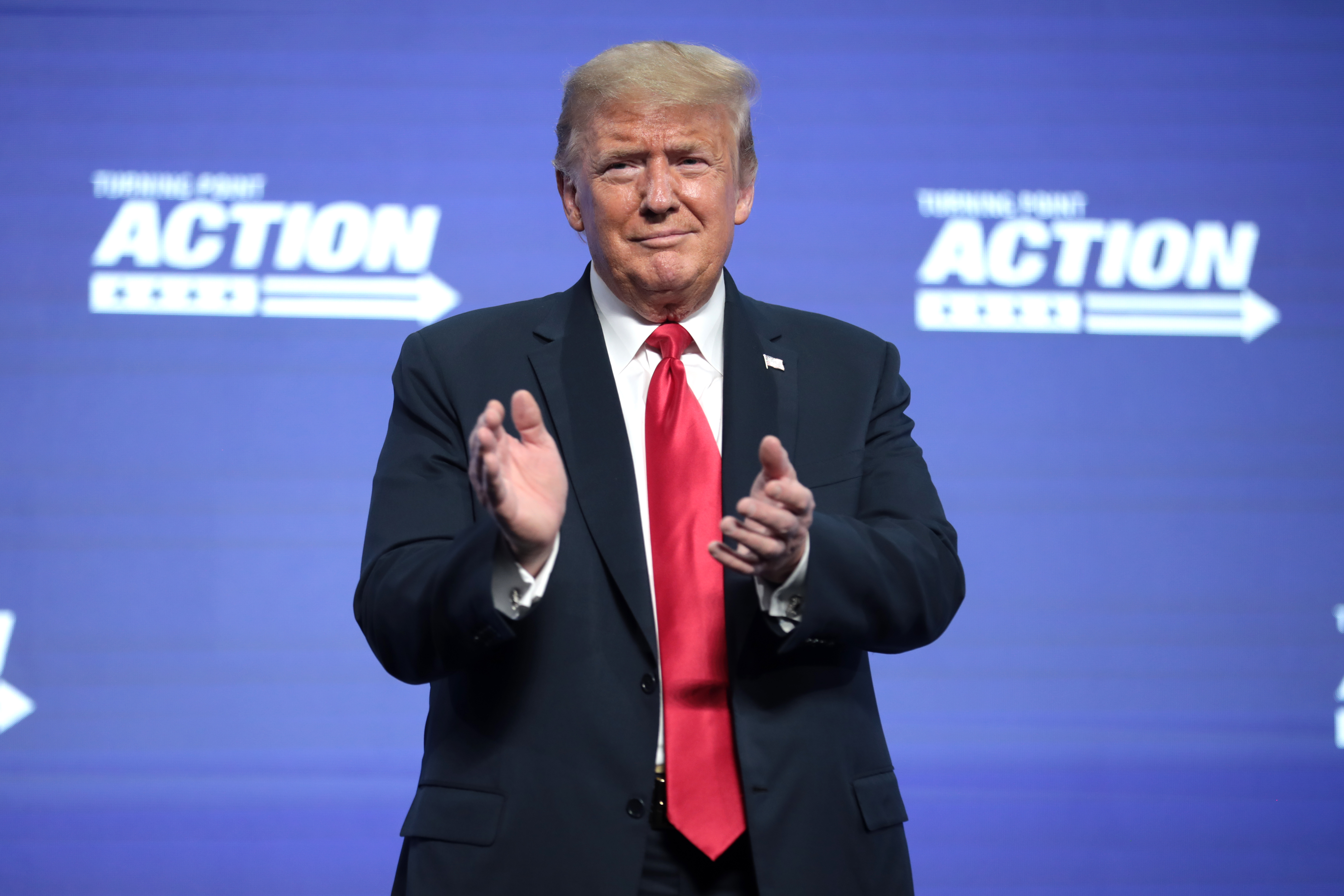 President of the United States Donald Trump speaking with supporters at an "An Address to Young Americans" event hosted by Students for Trump and Turning Point Action at Dream City Church in Phoenix, Arizona.